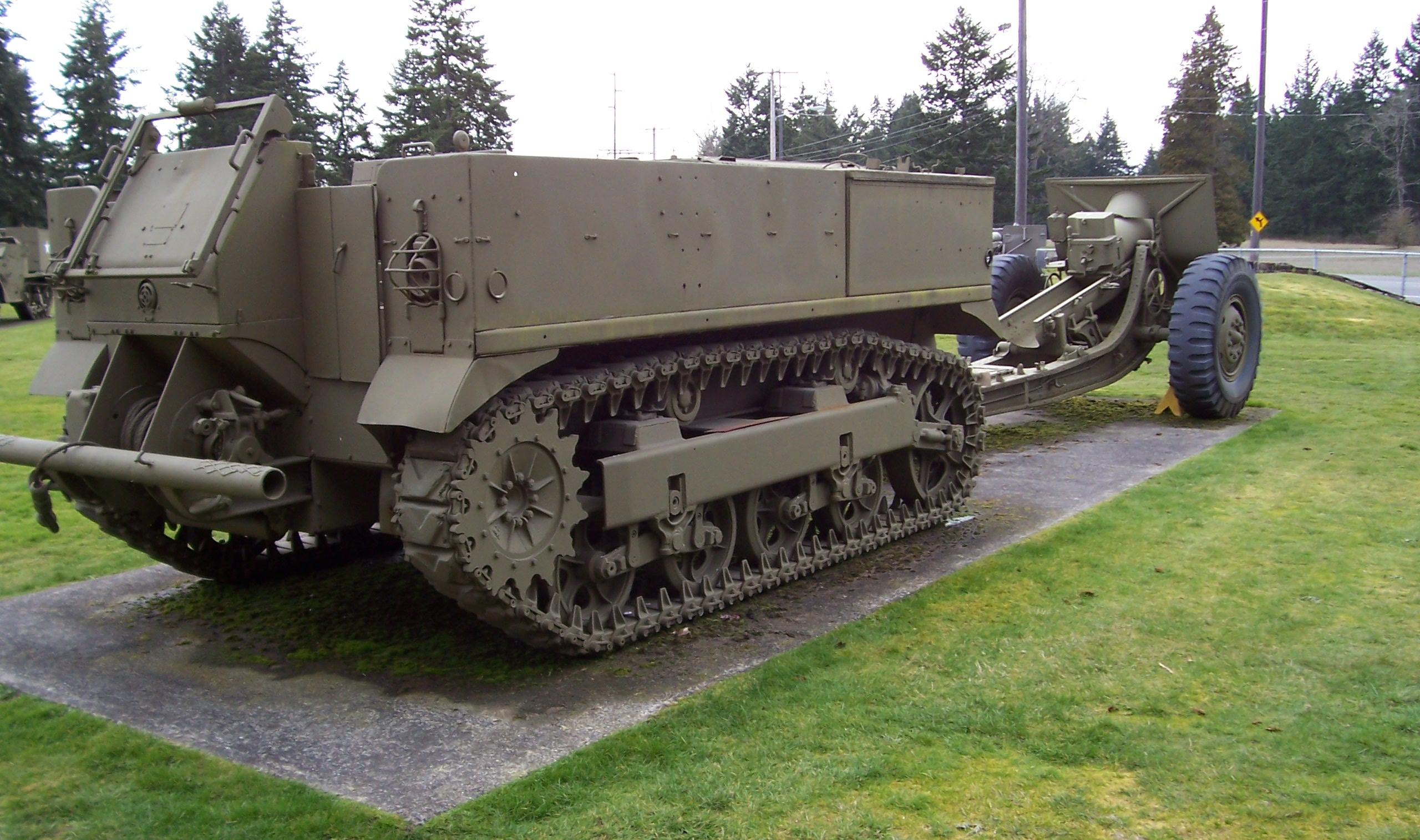 WW2 track towing a Howitzer used in France During World War II.